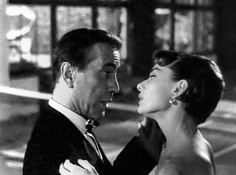 Screenshot of Audrey Hepburn and Humphrey Bogart from the trailer for the film Sabrina (1954 film)